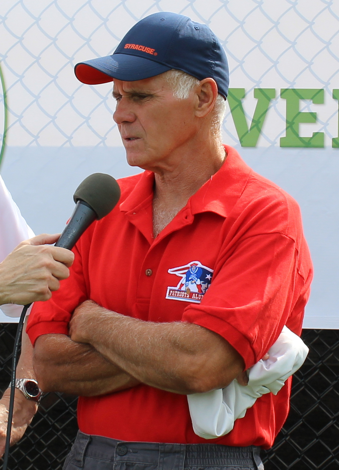 Chuck Wilson interviewing Dante Scarnecchia in Rhode Island in 2014